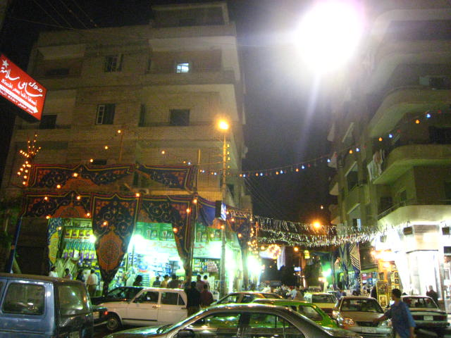 I was still a beginner, I was interested to show the life in Cairo during Ramadan. Location: Midan EL-Game' (The Mosque Square), Heliopolis, Cairo, Egypt. About: Life in Cairo during Ramadan. Note: After 8pm life is back every day in Ramadan more than the normal